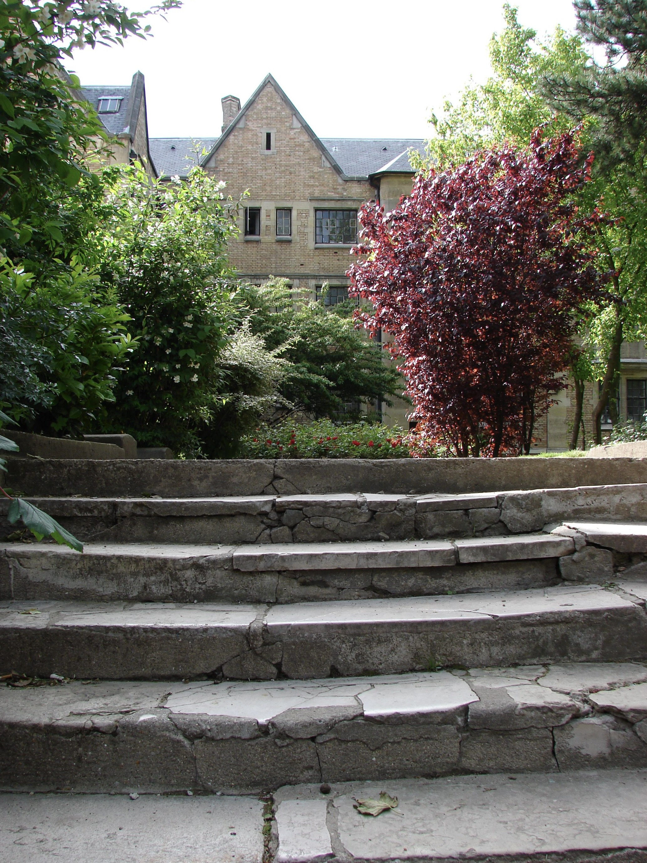 Cite Internationale Universitaire de Paris - Fondation Deutsch De La Meurthe - Pavillion Greard